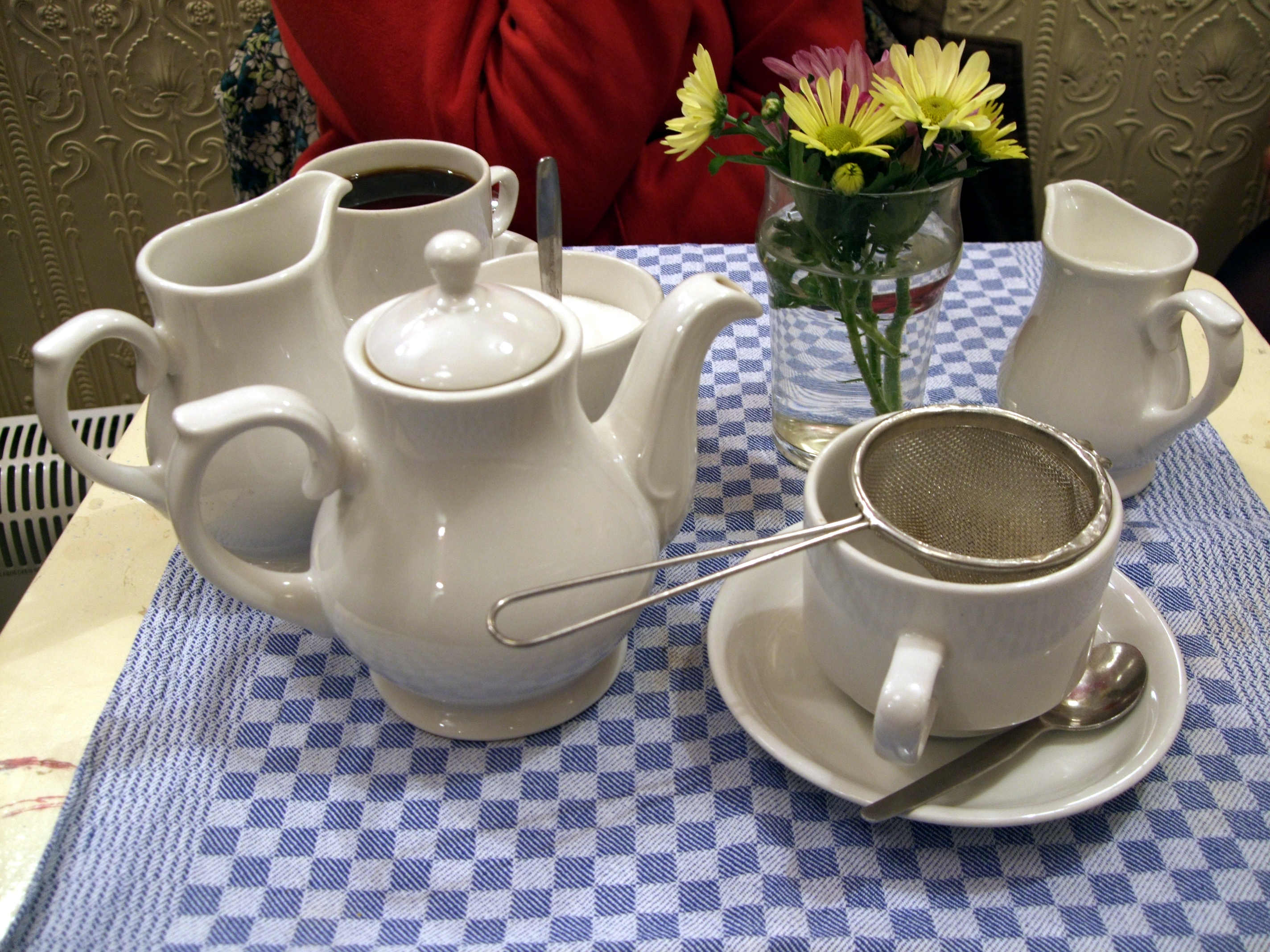 The tea service at this classic cafe in Soho. At Maison Bertaux, Greek Street.